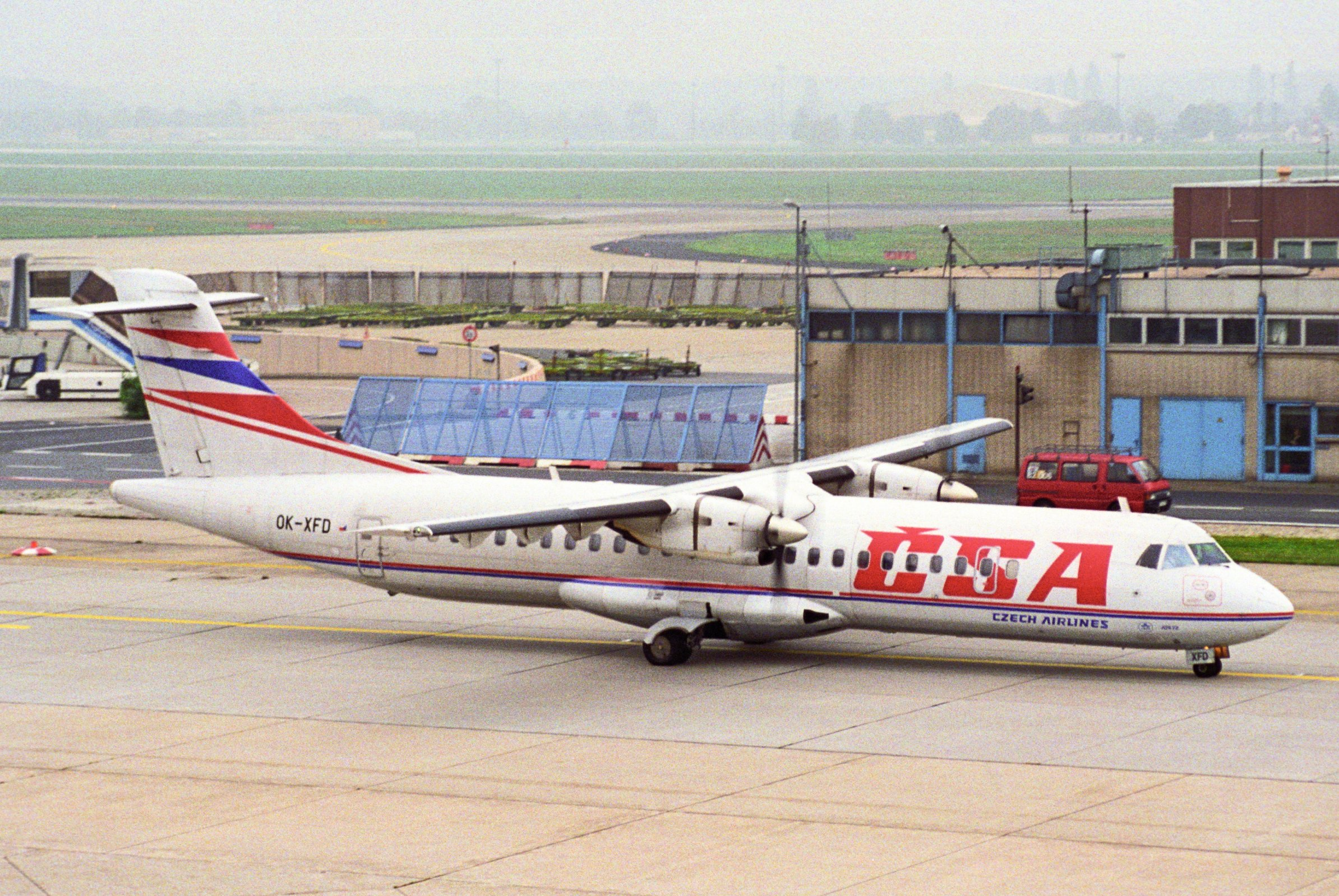 This ATR 72 first flew on April 15, 1992... The Propliner has been flying for the Czech carrier ever since...